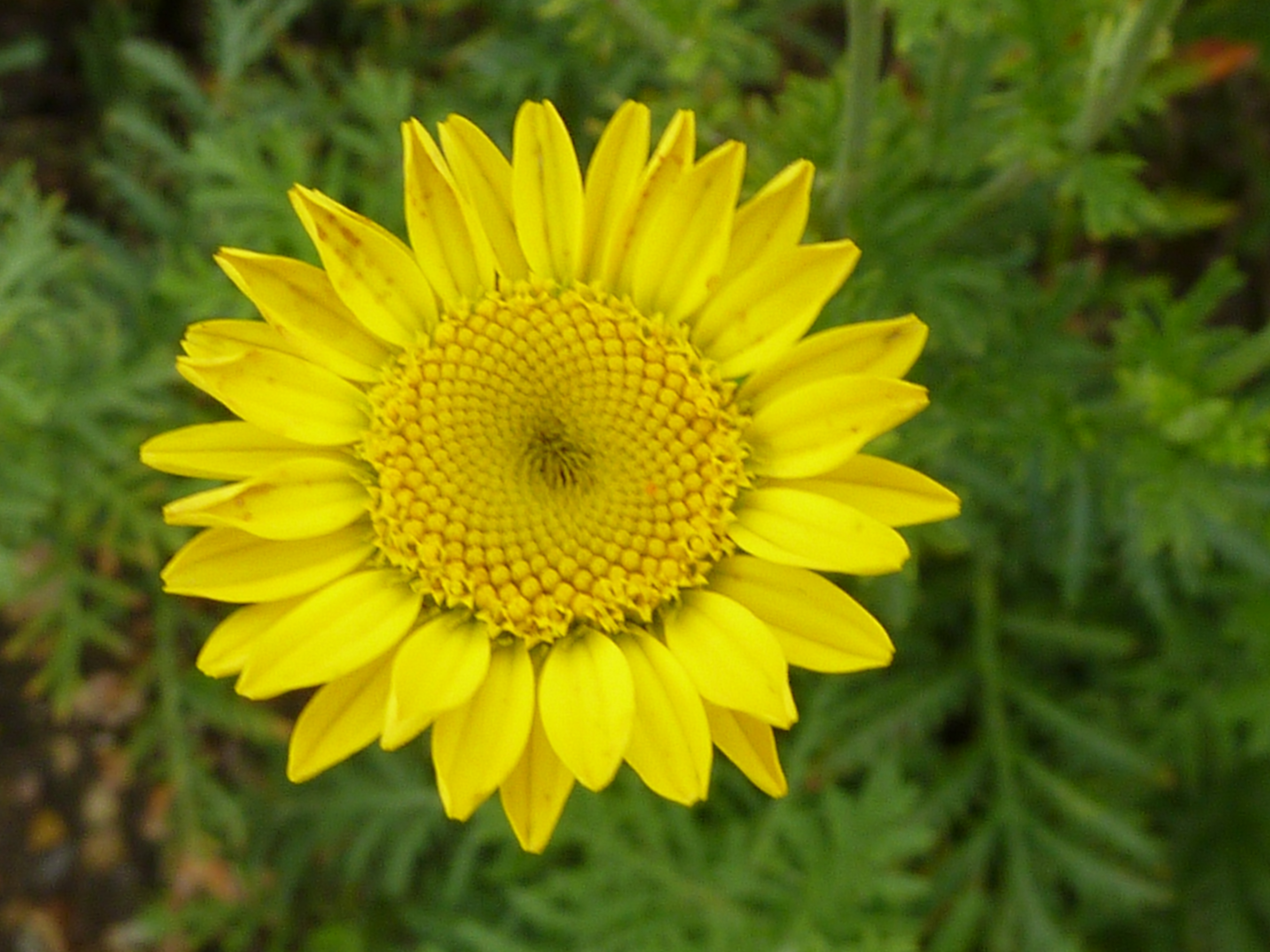 Anthemis tinctoria, Cambridge University Botanic Garden